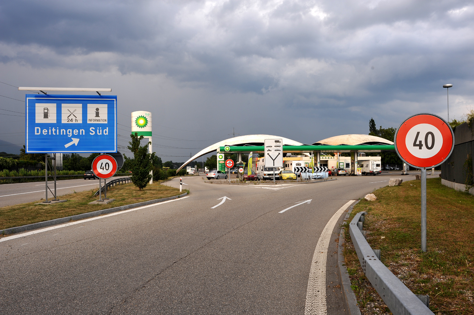 Highway service area Deitingen south, triangle concrete cupola roofs of the Swiss civil engineer Heinz Isler, built 1968; Solothurn, Switzerland.